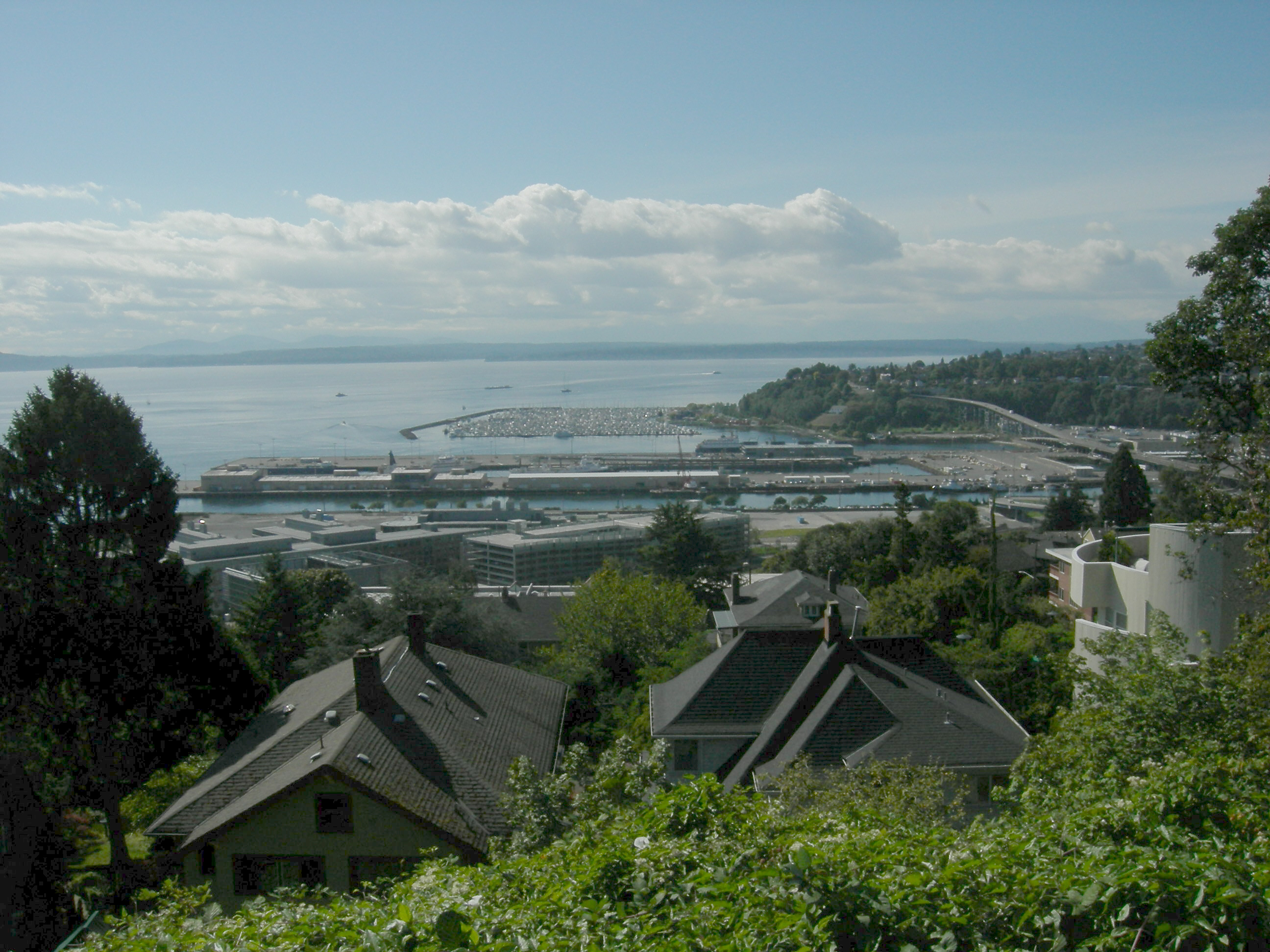 Smith Cove of Elliott Bay on the south shore of Interbay and Magnolia (and, beyond Smith Cove, Puget Sound), Seattle, Washington, seen from the Betty Bowen Viewpoint, Marshall Park, Queen Anne Hill.